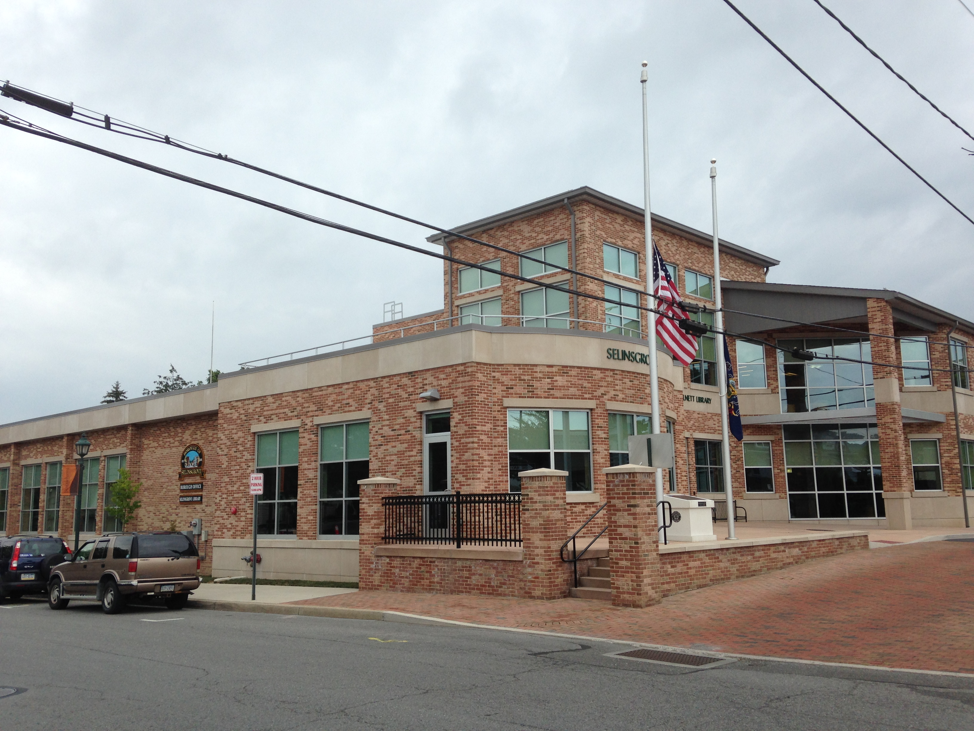 The borough building in Selinsgrove located on Pine Street.